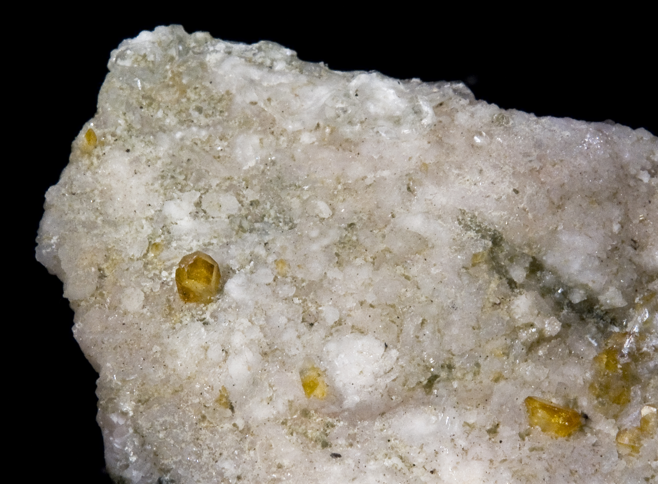 Celestine - Gypsum quarry, Arignac, Tarascon-sur-Ariège, Ariège, Midi-Pyrénées, France(5x3.8cm)